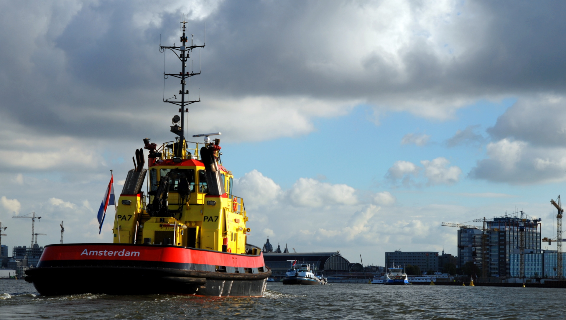 The Port of Amsterdam 7, one of the tugboats operating in the Amsterdam harbour. Amsterdam Central Station can be seen in the background.